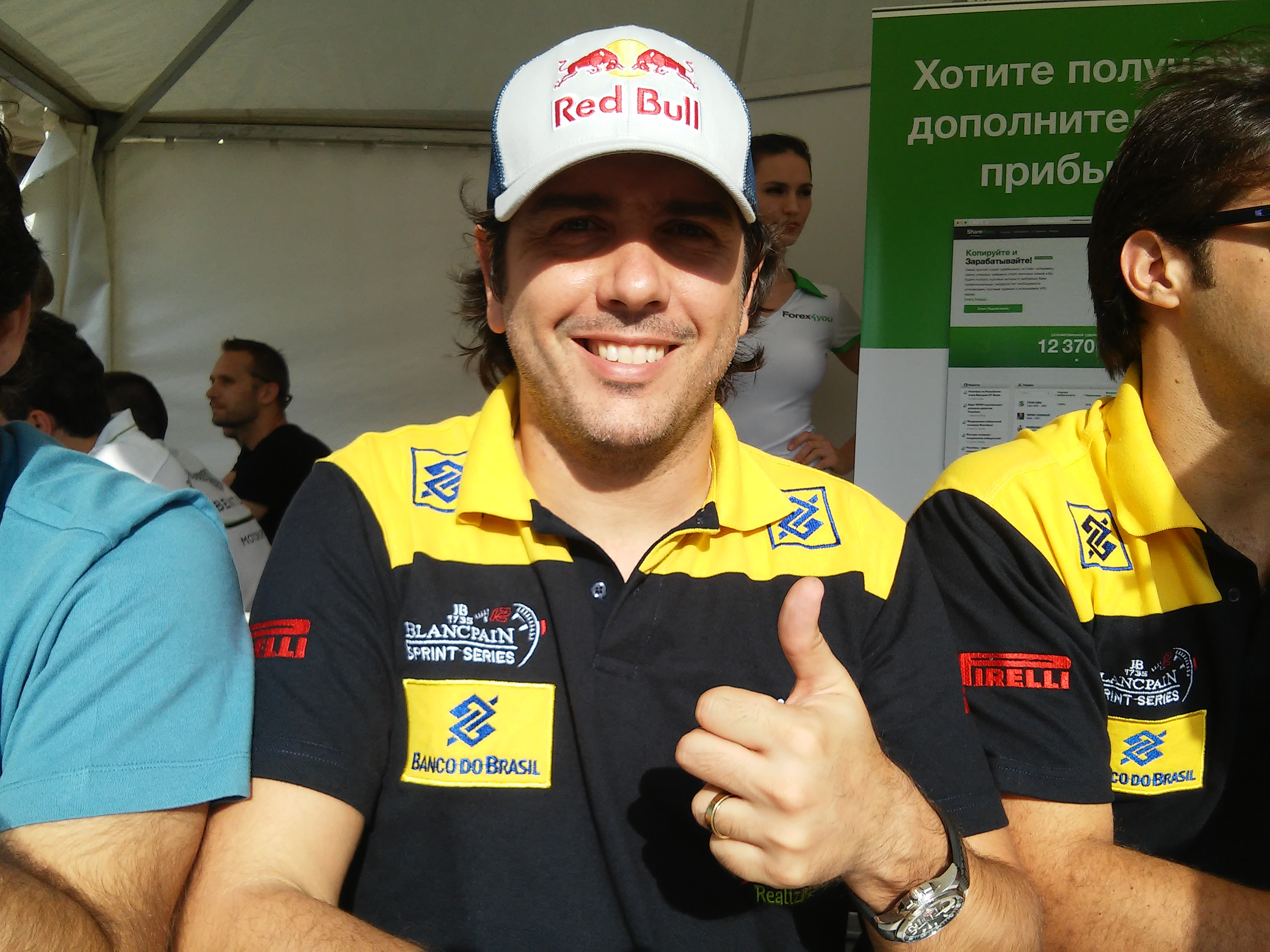 Caca Bueno in Moscow